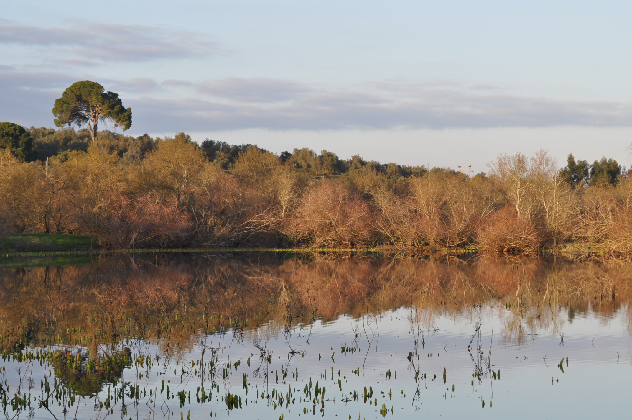 The Paul do Boquilobo Nature Reserve was named by UNESCO as Biosphere Reserve in 1981. It is located in the district of Santarém in central Portugal, and distributed between the municipalities of Golegã and Torres Novas. The Reserve comprises various distinct zones of marshlands, small forested areas and pasture land, and agricultural areas, covering 5,896 hectares. It comprises important habitats for various flora and fauna.